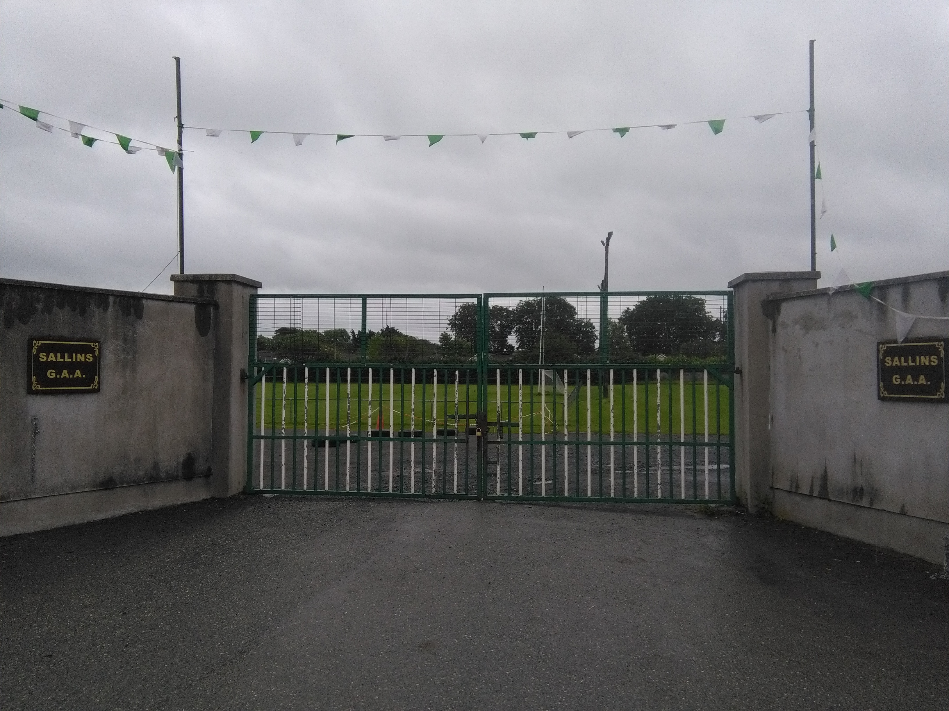 Sallins GAA gates